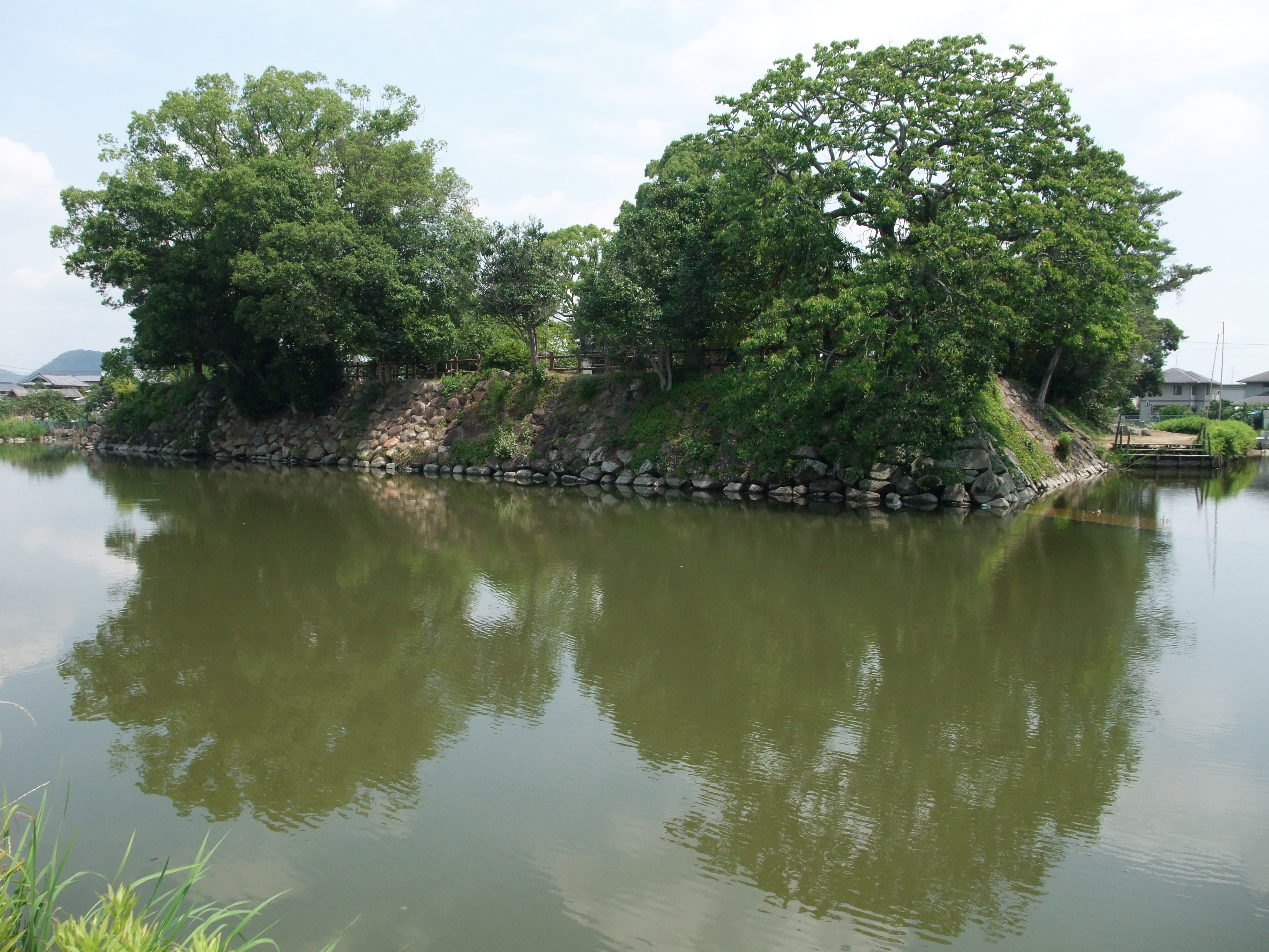 Remains of Natsukawa castle and moat